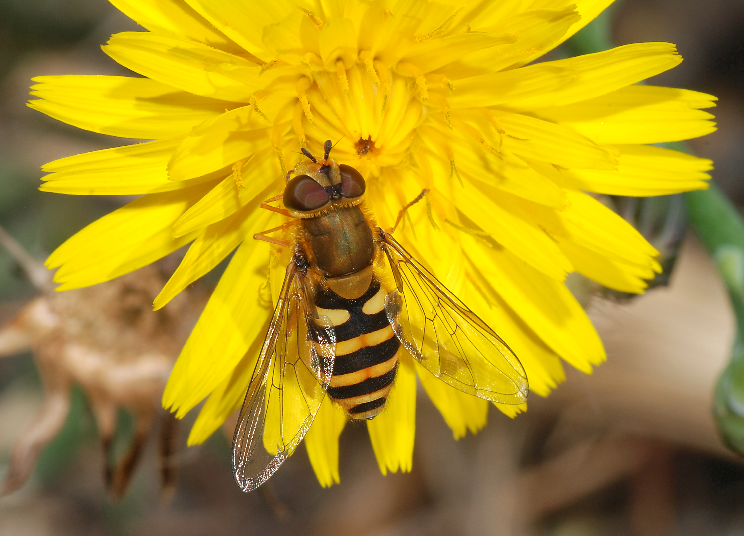 A female hover fly (Syrphus ribesii).